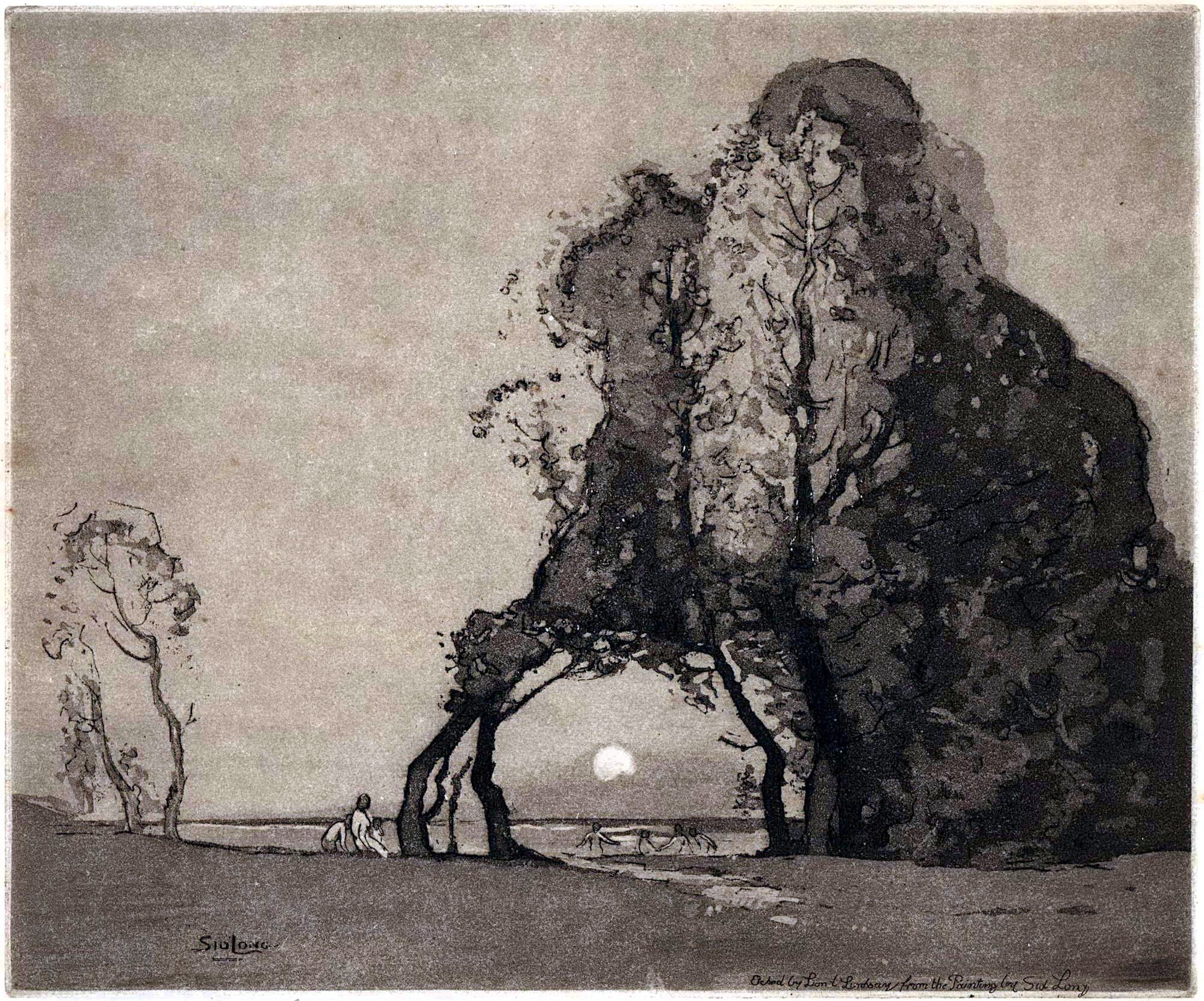 1918. Soft-ground etching and aquatint printed in brown ink. , signed by Long and annotated by Lindsay in plate lower left to right, signed by Long and Lindsay and annotated “no. 41” in pencil in lower margin, 16.7 x 20.3cm. Slight foxing overall, repaired tear and slight stains to upper and lower margins, old mount burn. JOSEF LEBOVIC GALLERY.